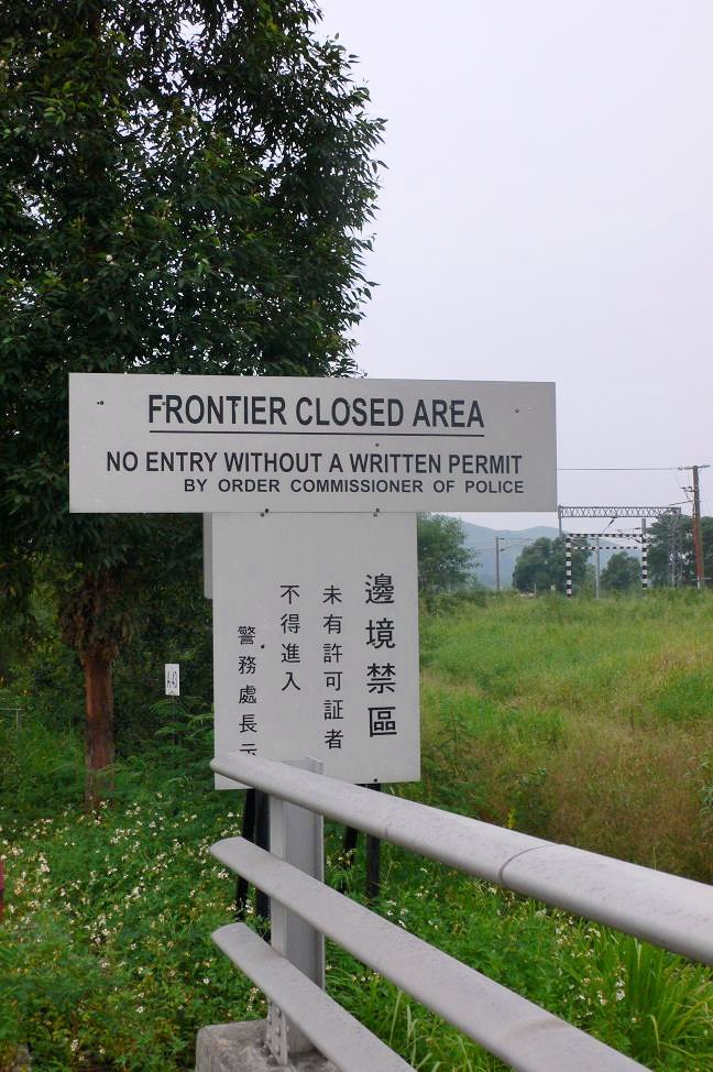 Lo Wu Frontier Closed Area Sign